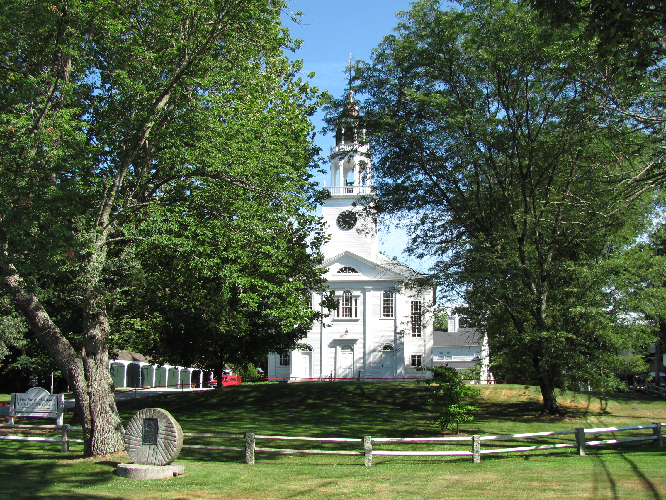 First Parish in Wayland Massachusetts